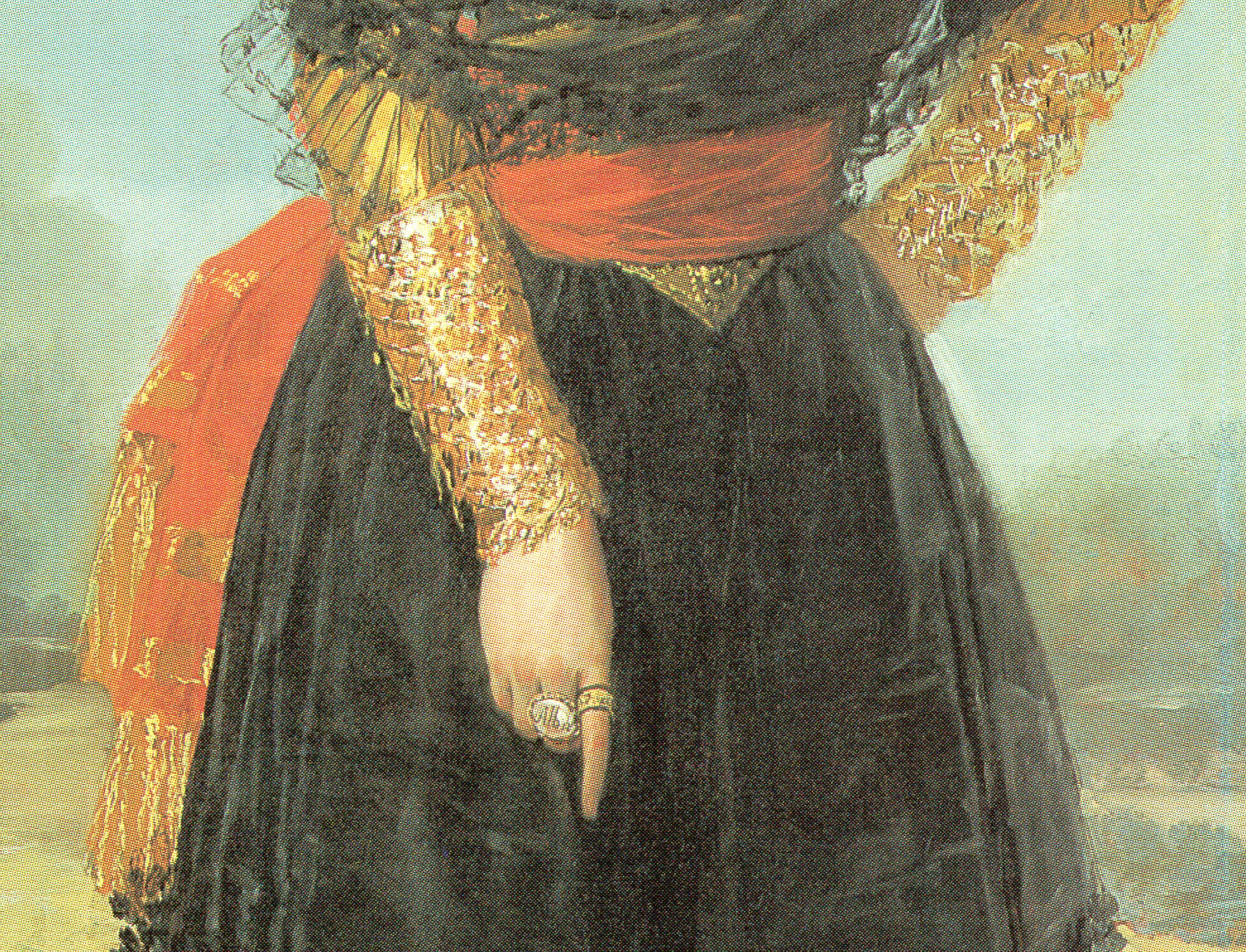 Detail from the well known Painting Duchess of Alba by Francisco de Goya